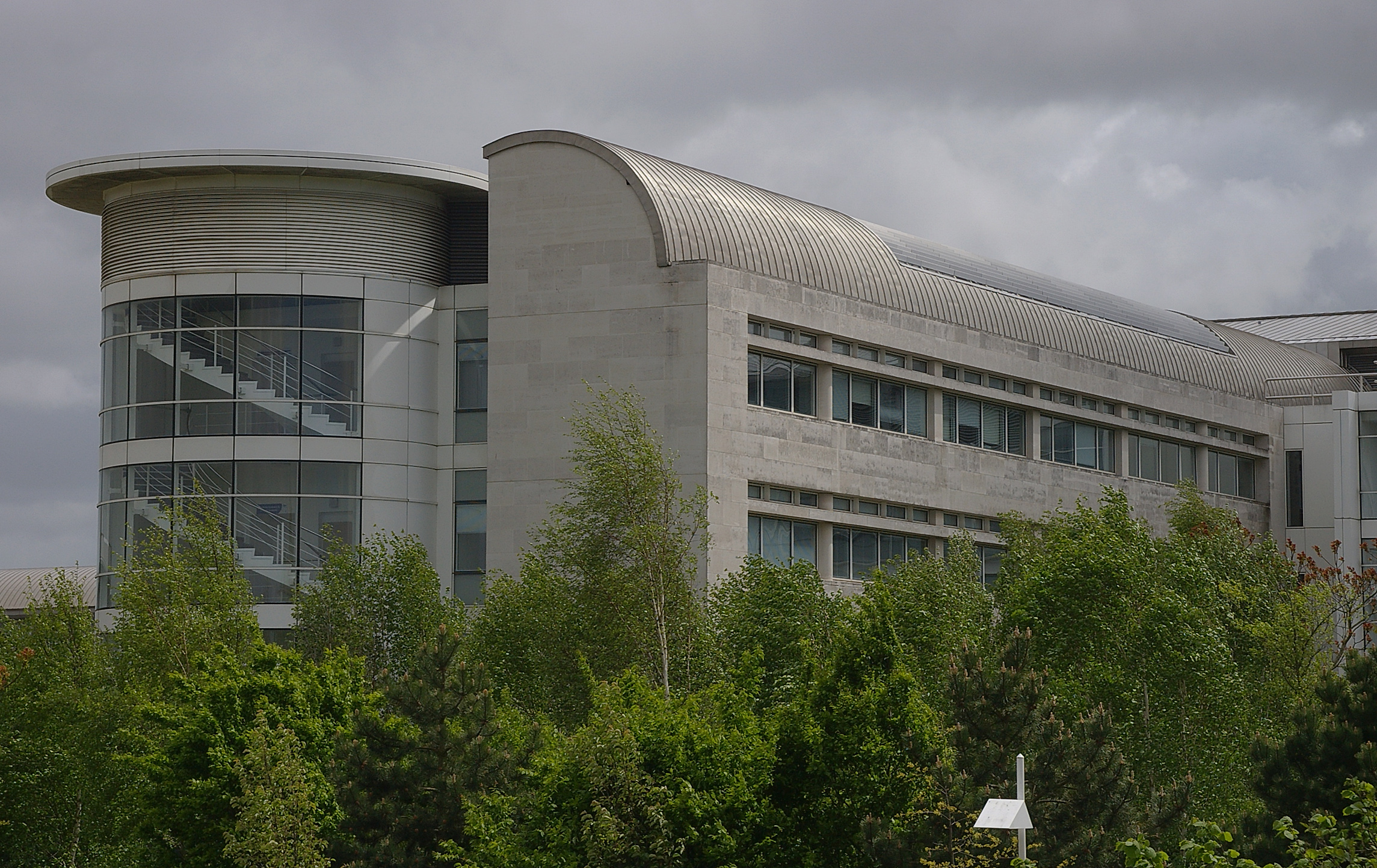 The MOD building by Filton Abbey Wood railway station in Bristol.